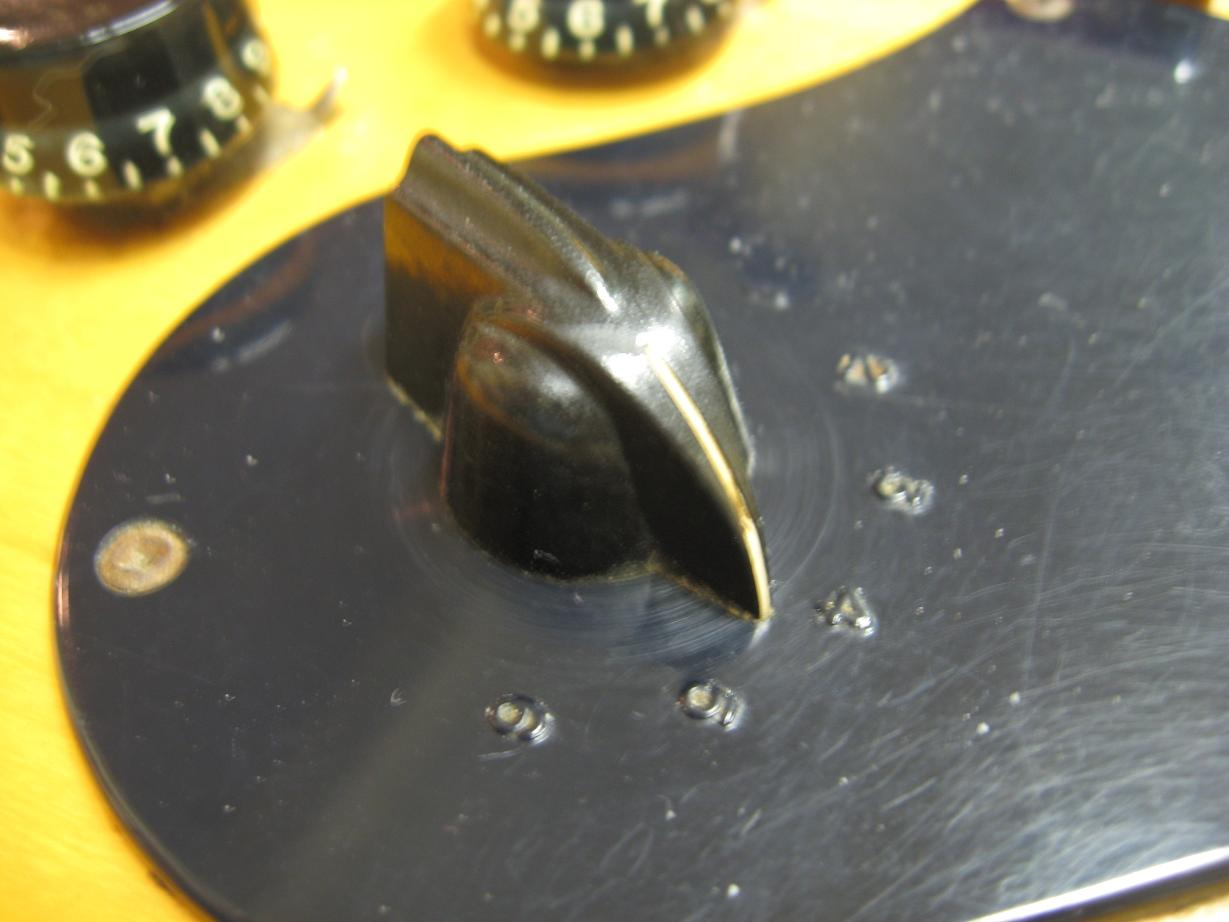 Gibson L6-S Custom switch